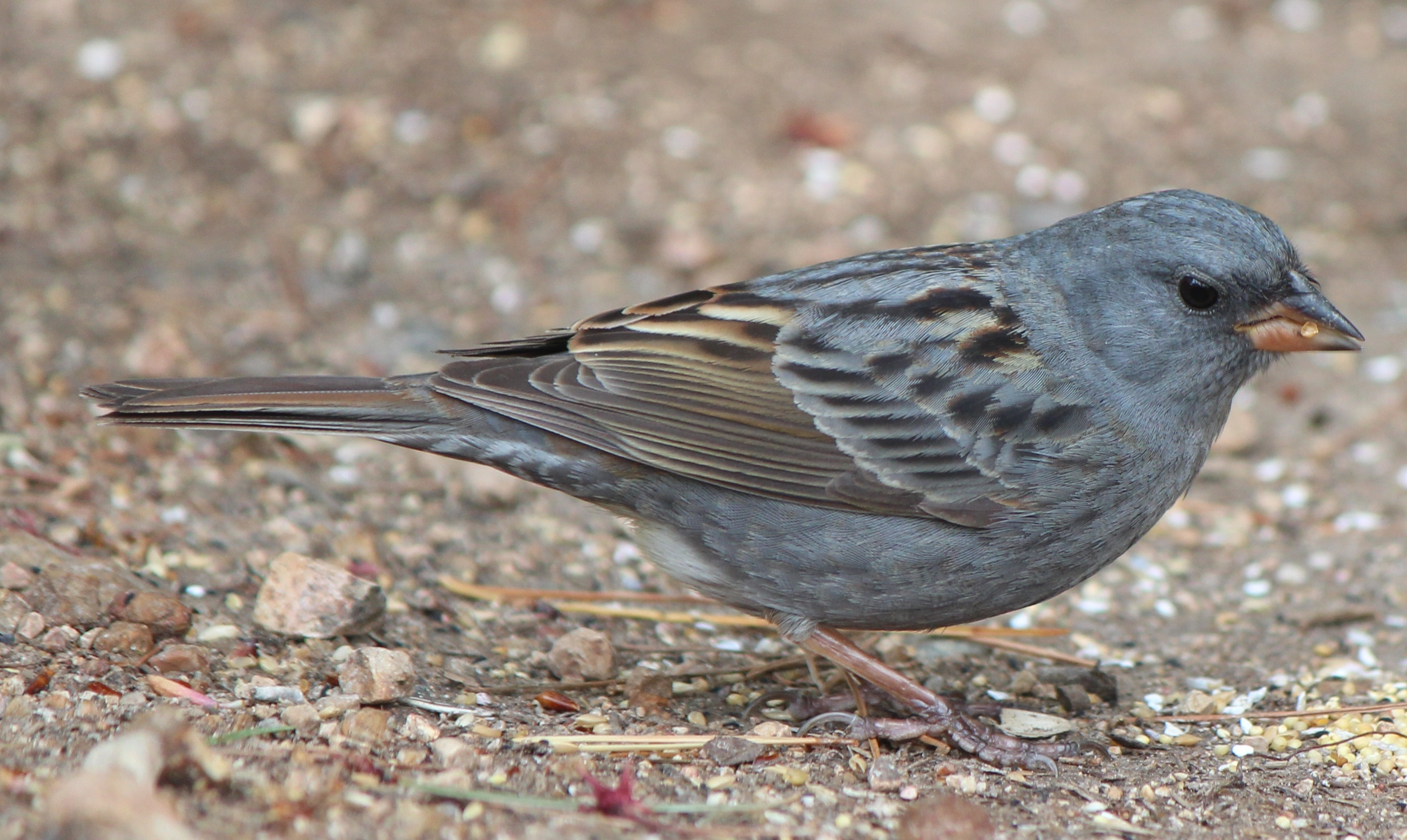 Grey Bunting (Emberiza variabilis), male, in Aichi prefecture, Japan.